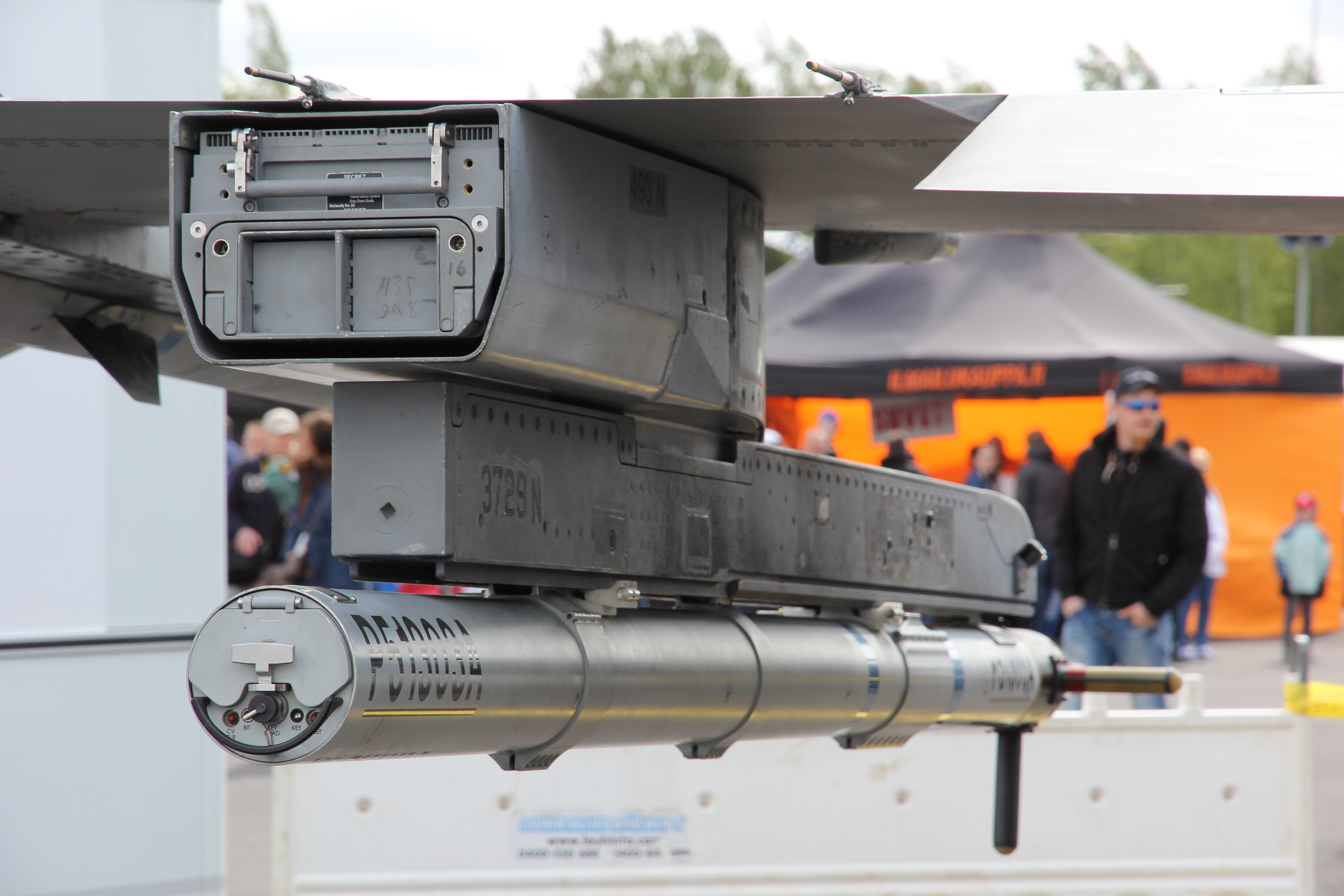 USAF F-16CM (89-2030) in Turku Airshow 2015. Left wing pylon with an ACMI pod. The upper part of the pylon has an AN/ALE-50 Towed decoy system.